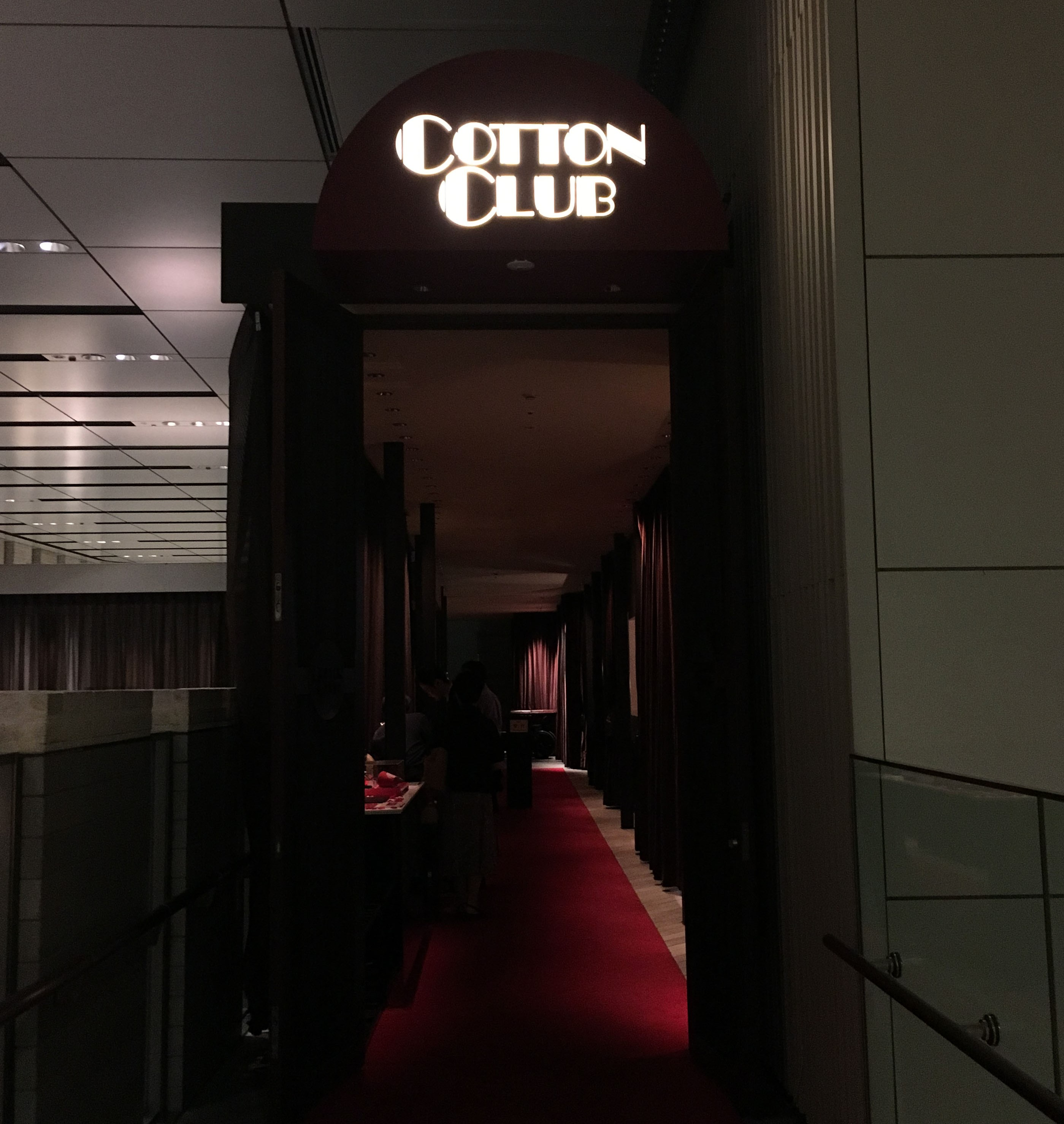 Cotton Club (Restaurant with live music in Tokyo, Japan)